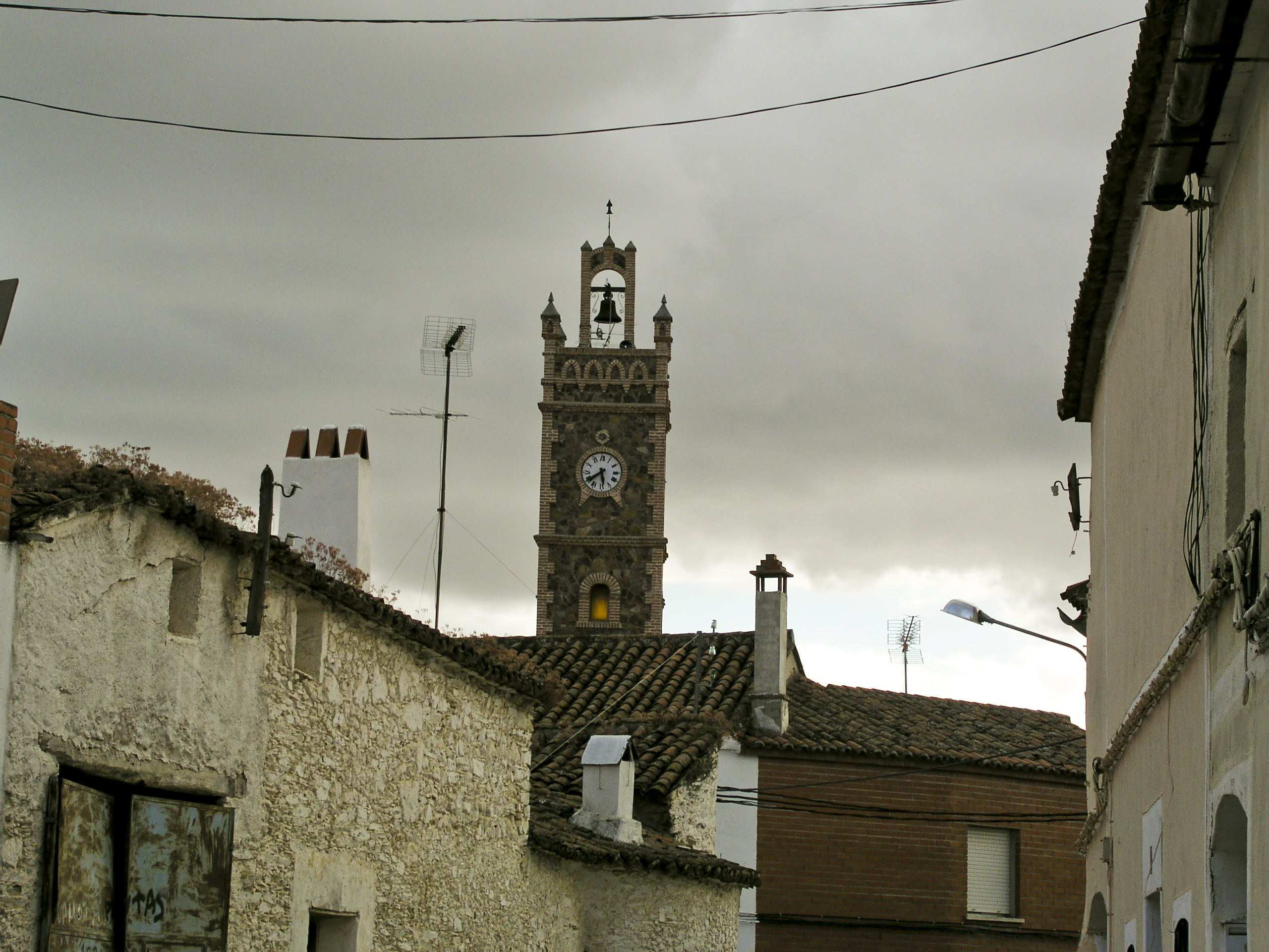 La Nava de Ricomalillo, Tower of Ayuntamiento. Province of Toledo, Spain.